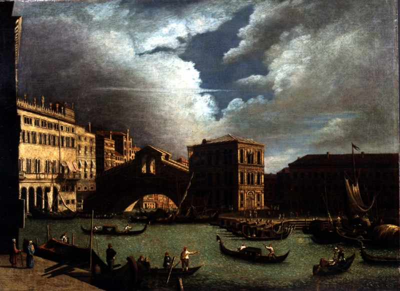 This previously unpublished painting is listed in the inventory of the artworks taken over from Intesa Leasing in 1999. The details of its previous history are unknown. The attribution to Francesco Battaglioli appears wholly acceptable. The artist, who was probably born in Modena but moved to Venice at an early age, is recognisable by virtue of his characteristic style, far closer to the subjective, dramatic approach of Francesco Guardi than the clear-cut, analytical models of the great view painters of the day, especially Canaletto and Bellotto. Esteemed by contemporaries, the artist is documented as active in Venice from 1747 to 1751. In 1754 he was summoned to the court of Ferdinand IV in Madrid, where he devoted himself mainly to scenery painting, often in collaboration with the famous soprano Farinelli. He returned to Venice in 1759, became a member of the Academy of Fine Arts and succeeded Visentini as professor of perspective in 1778. The canvas presents the Rialto Bridge as seen from the Grand Canal looking towards the Ca’ d’Oro, an unusual angle that eschews the full view of the majestic structure as often shown in the traditional works. A similar viewpoint is adopted in a painting by Canaletto dated 1725 and belonging to the Agnelli Foundation in Turin [1], a work of unquestionably superior quality to which Battaglioli would appear indebted for the rendering of atmosphere. The View of the Piazzetta in the Crocker Art Museum of Sacramento, California, resembles the Cariplo painting in terms of stylistic definition, above all in the depiction of the figures and monuments [2]. The painting can be attributed chronologically to the last phase of the Battaglioli’s production after his definitive return to Venice, between the seventh and ninth decades of the 18th century.